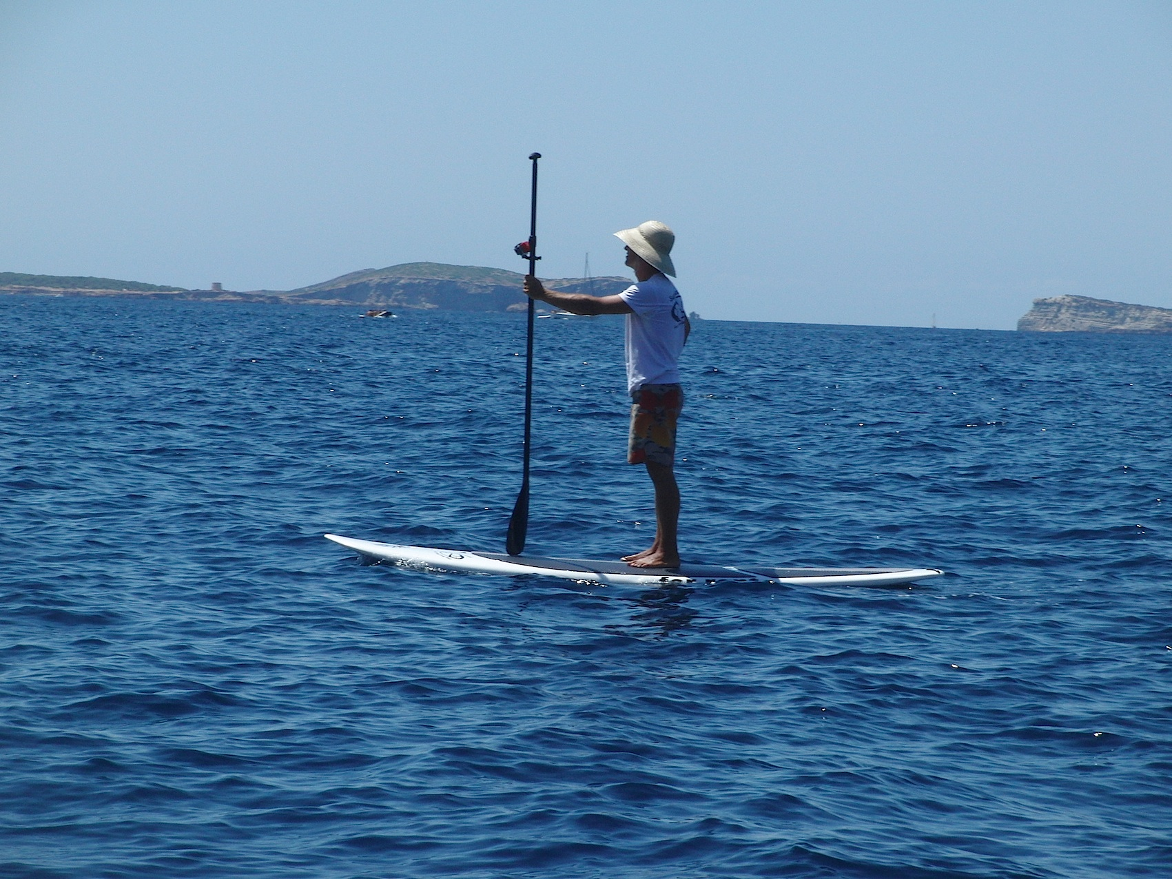 Stand-up-paddler with optimal length of paddle in the Mediterrean